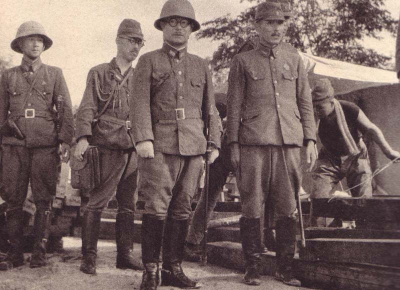 general Takuro Matsui, commander of the 5th Infantry division, Imperial japanese army, during the battle of Singapore